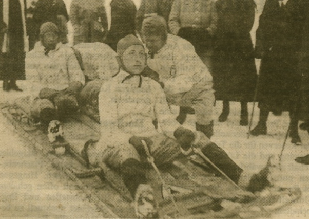 race on bobsleigh and luge run Arosa, Switzerland